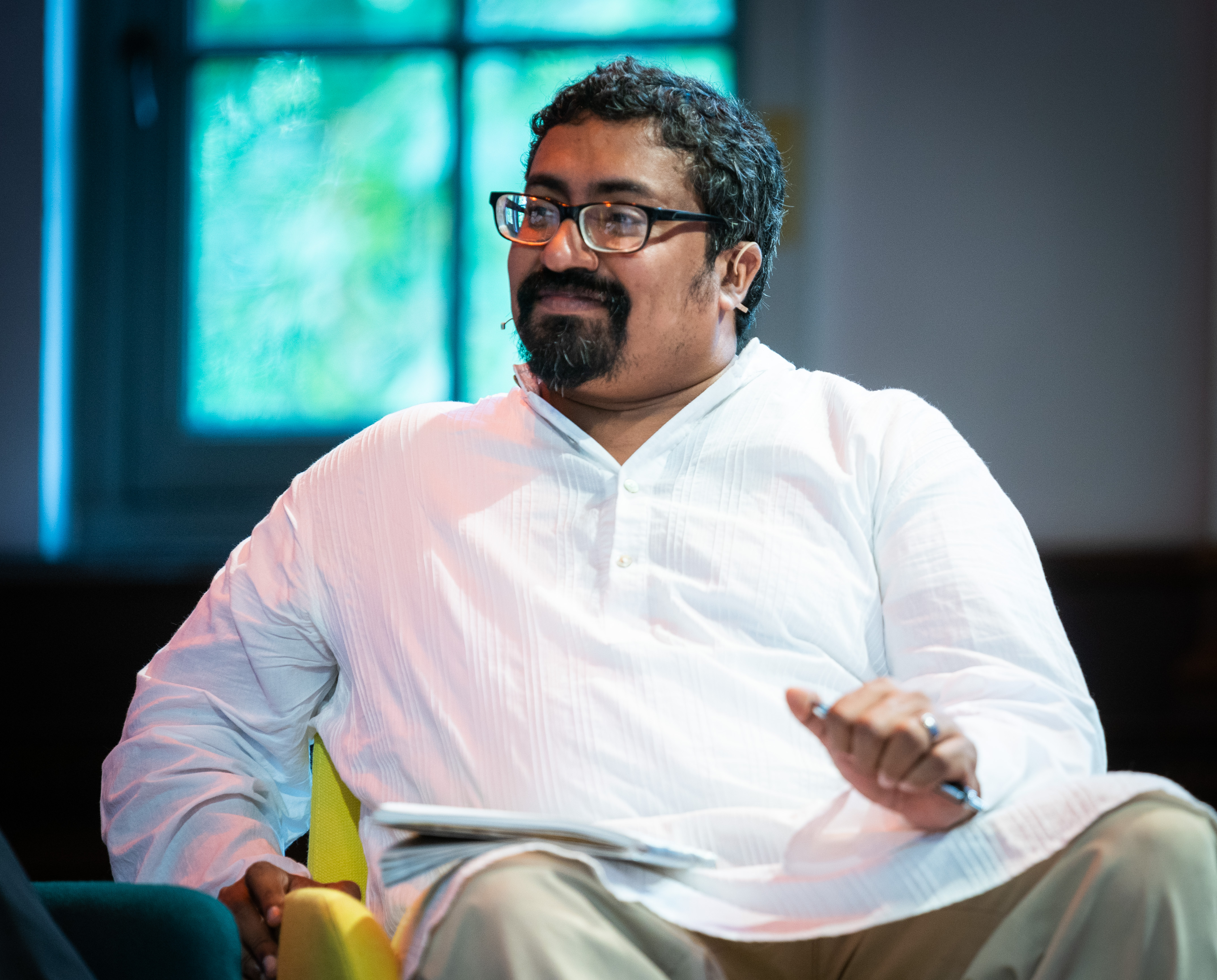 Den Haag, 3 oktober2019 Mind the Mind Now Foto Martijn beekman